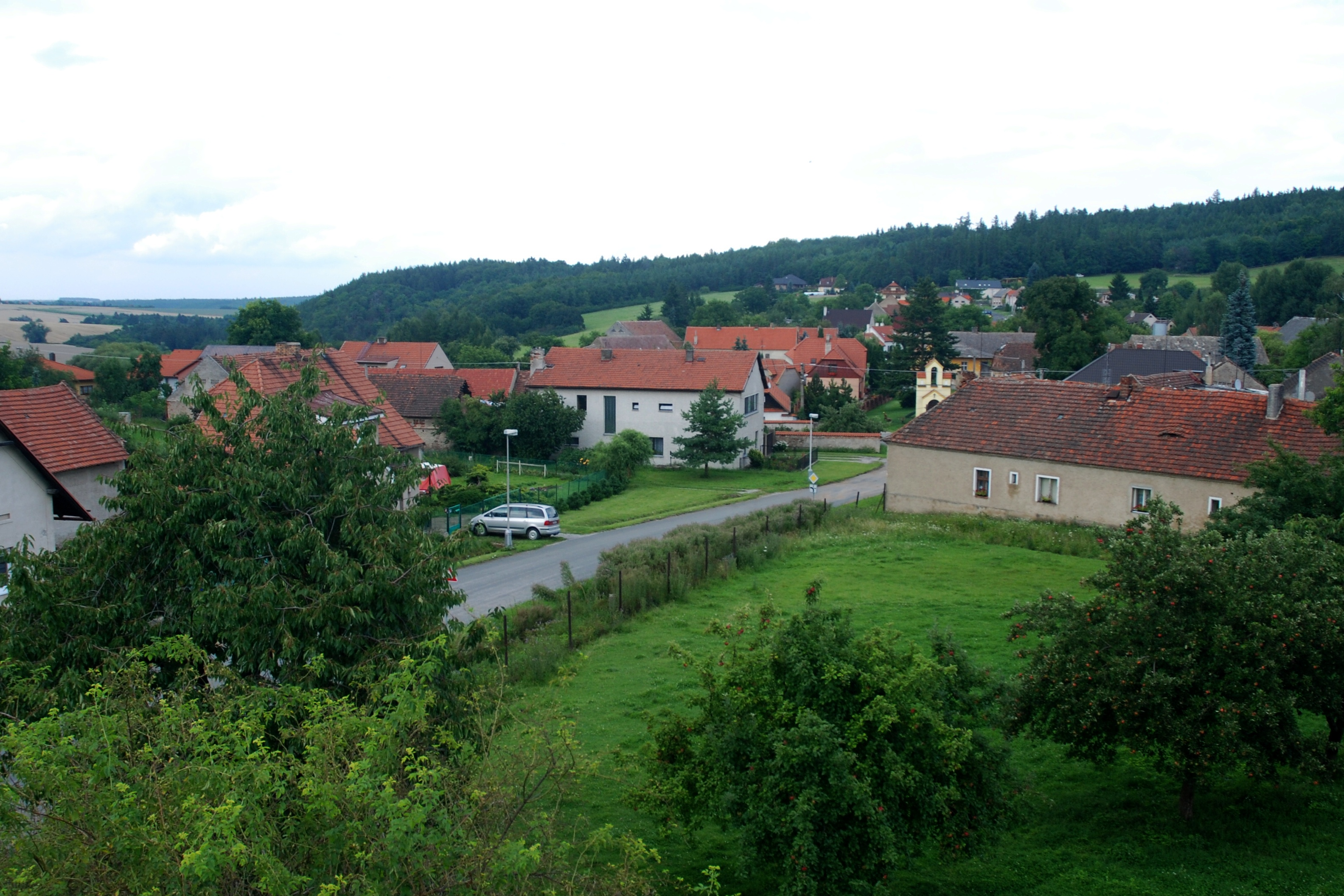 This photograph was taken within the scope of the third year of the 'Czech Municipalities Photographs' grant. Libečov - celkový pohled z mostu